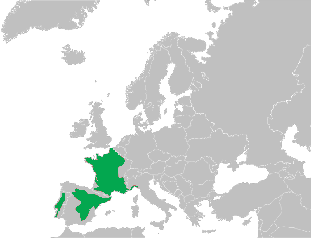 Pelodytes punctatus range map.